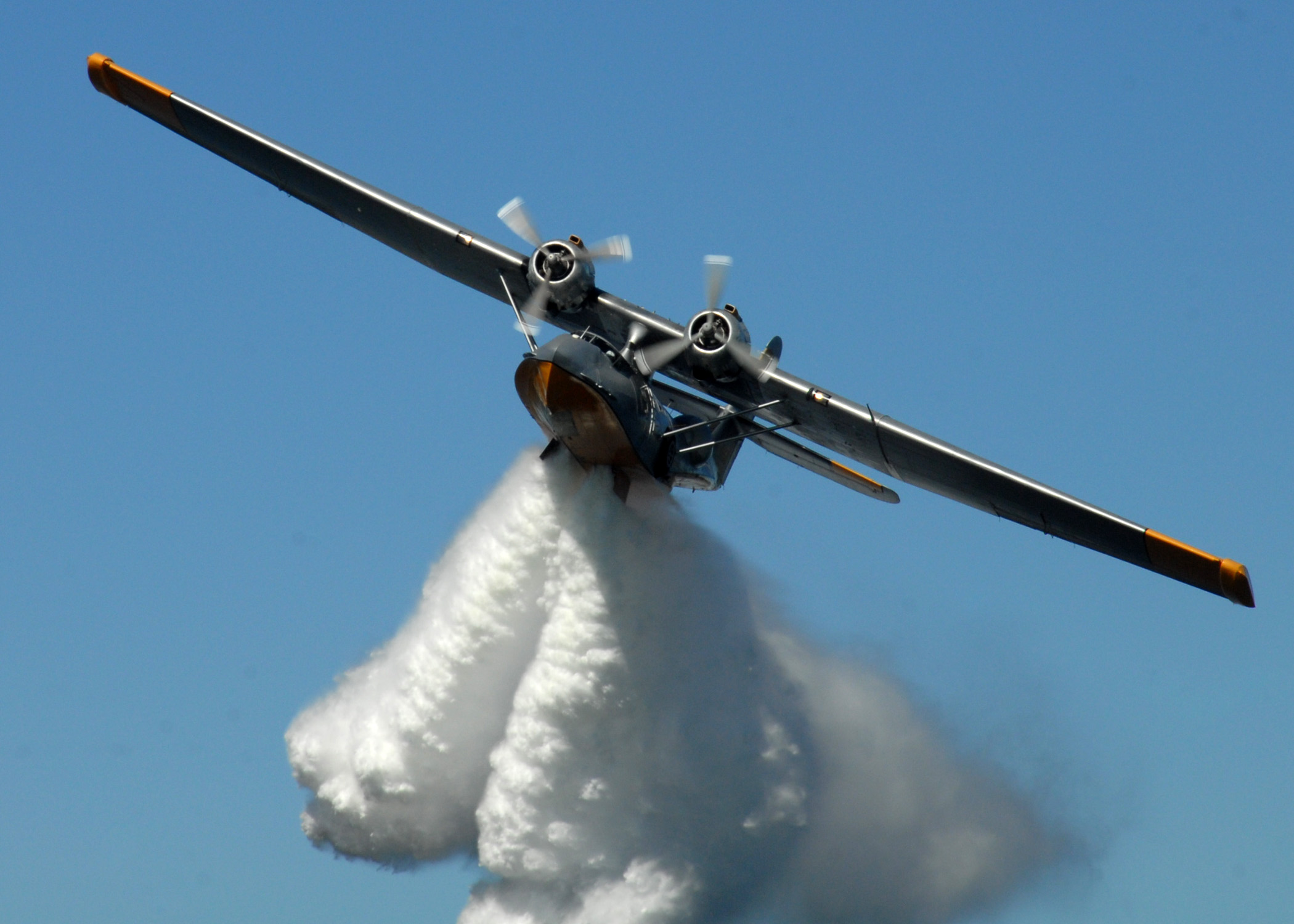 OAK HARBOR, Wash. (Sept. 25, 2009) A PBY-6A Catalina drops a load of water from its water-tank doors over Crescent Harbor. The aircraft's departure marked the end of a week-long visit to Naval Air Station Whidbey Island and Oak Harbor. The visit coincided with the 67th anniversary of NAS Whidbey Island on Sept. 21 and the 11th anniversary of the PBY Memorial Foundation, located on the Seaplane Base, Sept. 22. (U.S. Navy photo by Mass Communication Specialist 2nd Class Tucker M. Yates/Released)